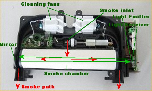 Smoke meter, functioning scheme